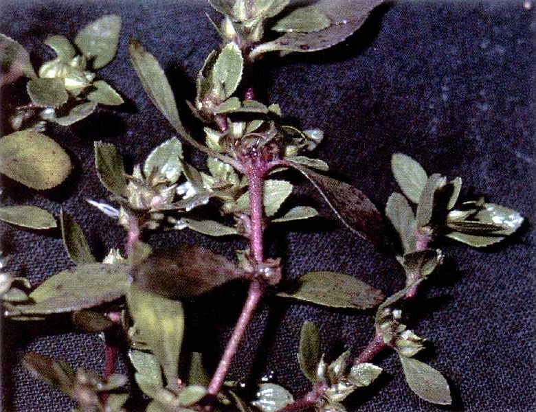 Bergia texana from Robert H. Mohlenbrock. USDA NRCS. 1992. Western wetland flora: Field office guide to plant species. West Region, Sacramento. Courtesy of USDA NRCS Wetland Science Institute.